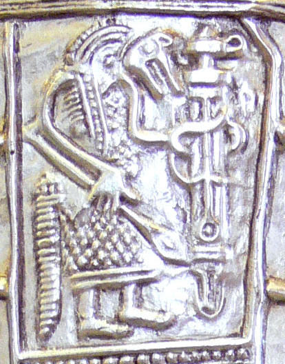 Wolf Warrior. Scabbard from Gutenstein, Bad.-Württ. Late 7th Century (formerly Berlin, now the Pushkin Museum). Replica Römisch-Germanisches Central Museum in Mainz.